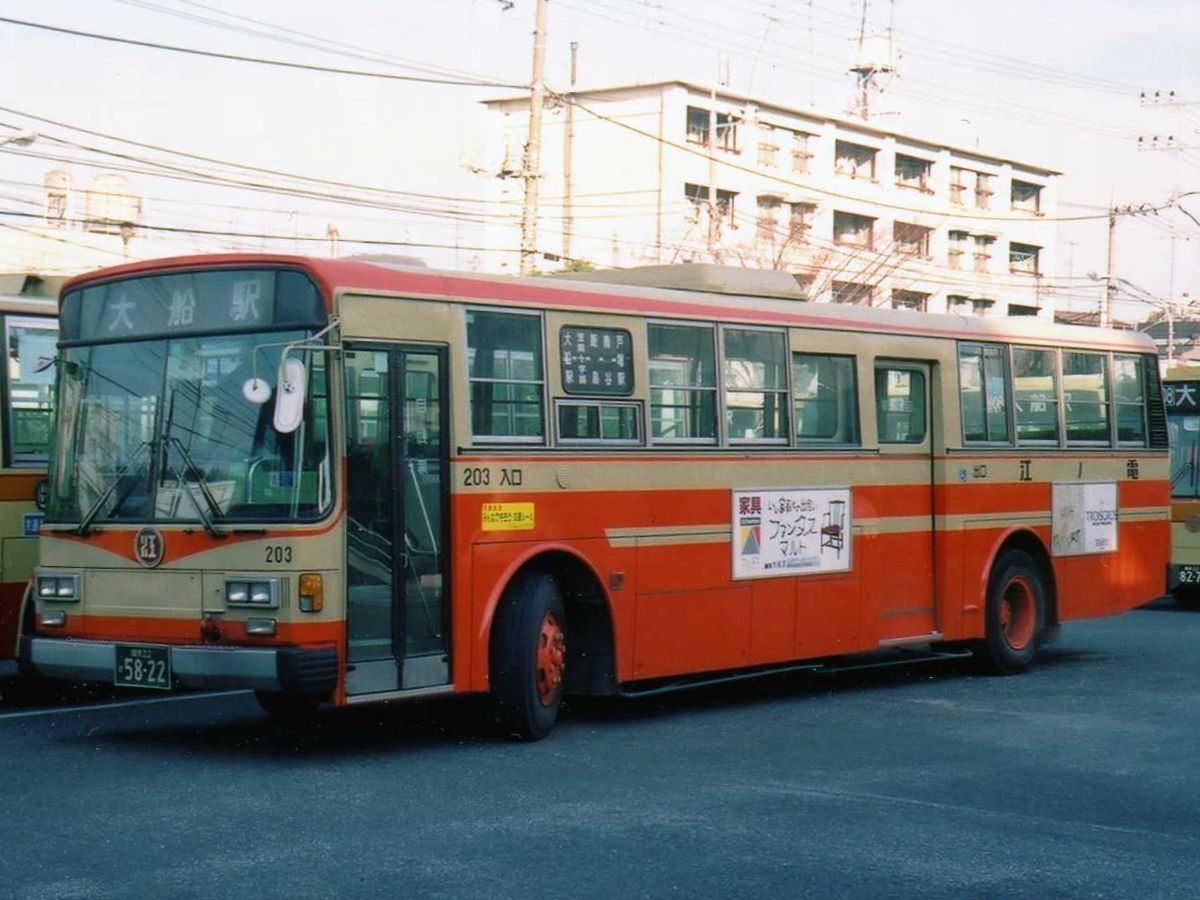 Enoshima Electric Railway 203 Mitsubishi P-MP218P at Ofuna Sta.